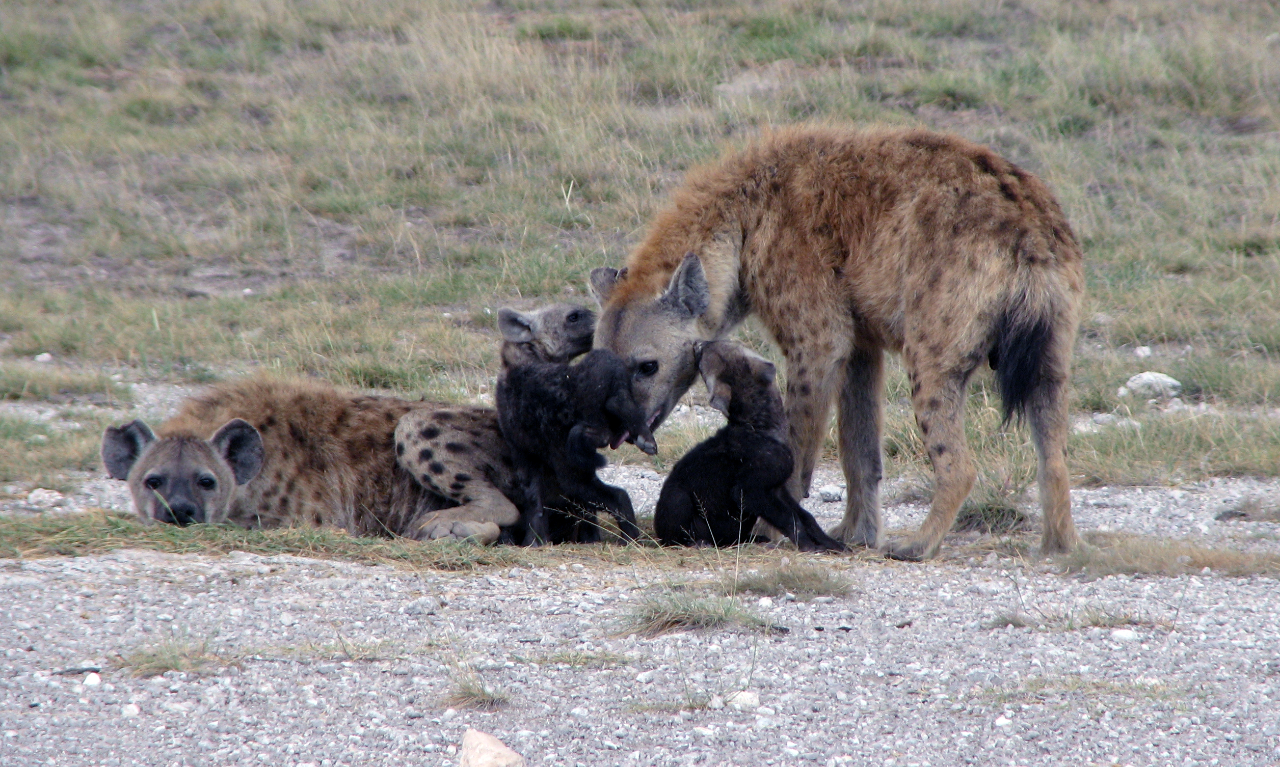 Taken on an African Safari